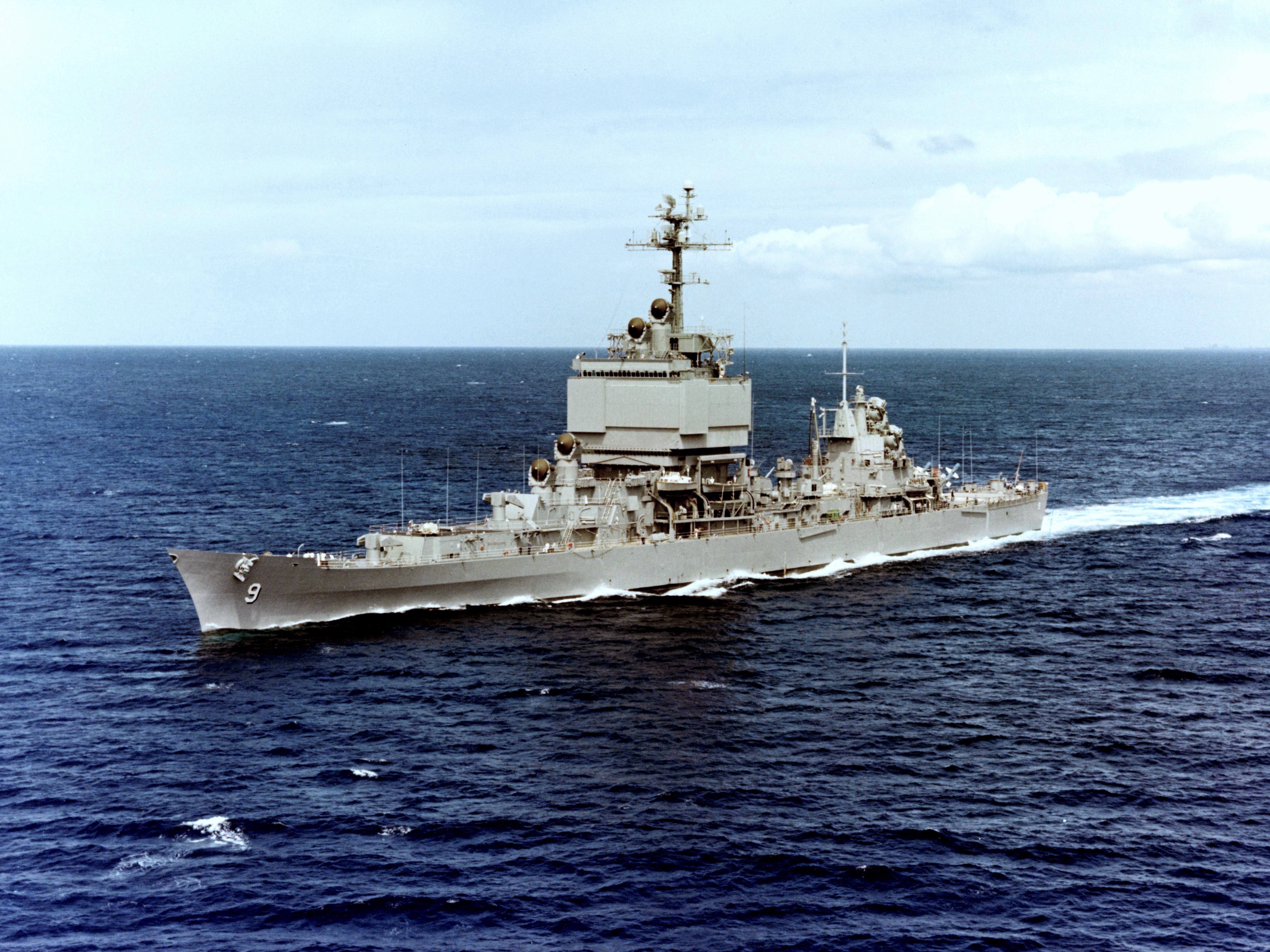 The U.S. Navy guided missile cruiser USS Long Beach (CGN-9) underway off Oahu, Hawaii (USA), 9 May 1973.